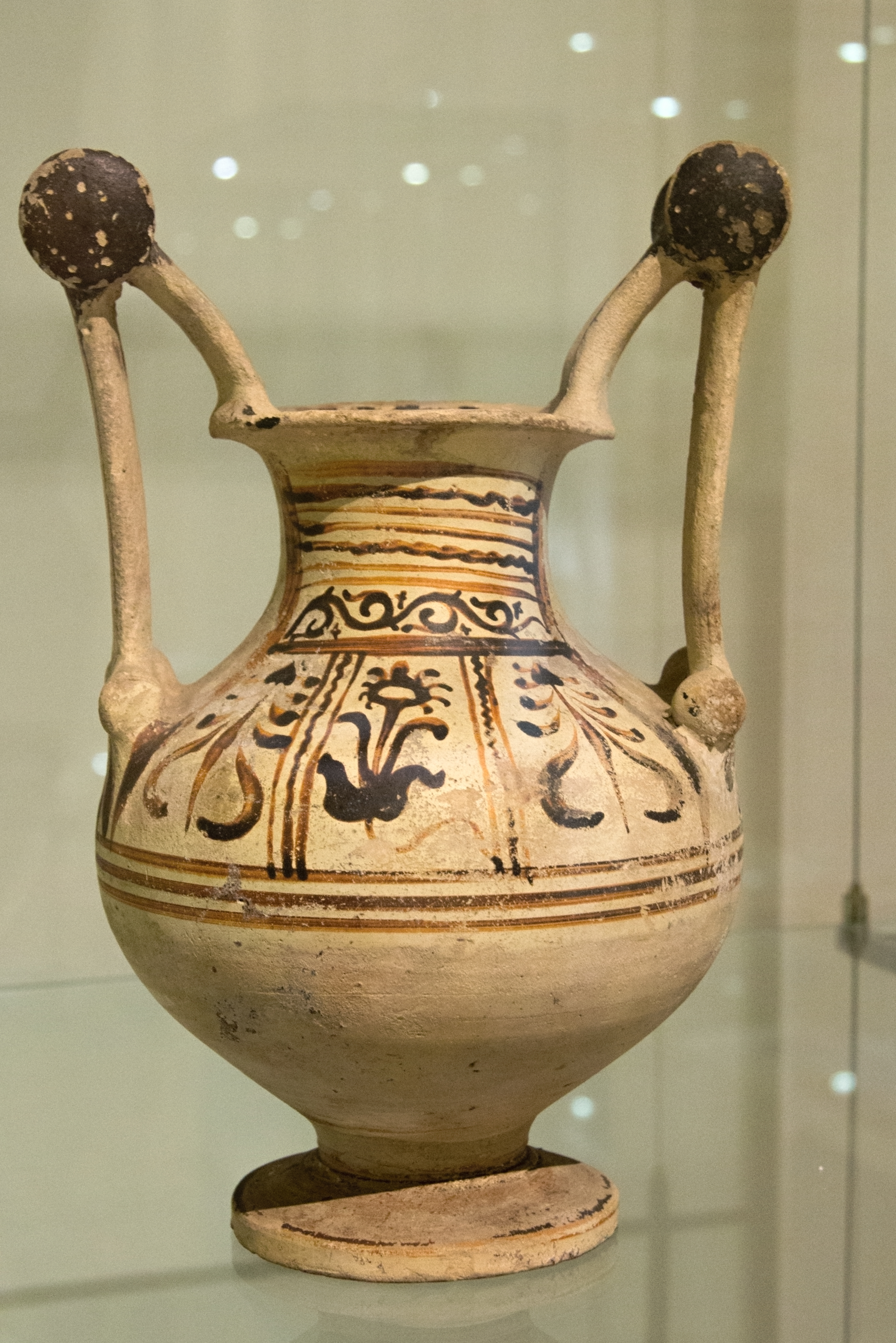 Messapian nestoris (trozella). Apulian potery. Florial motif painted on a light surface. 4th century BC. NG Prague, Kinský Palace, NM-H10 4793.